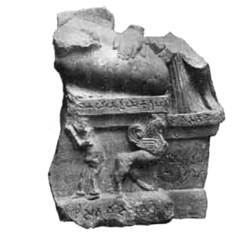 Mathura Katra fragment A-66